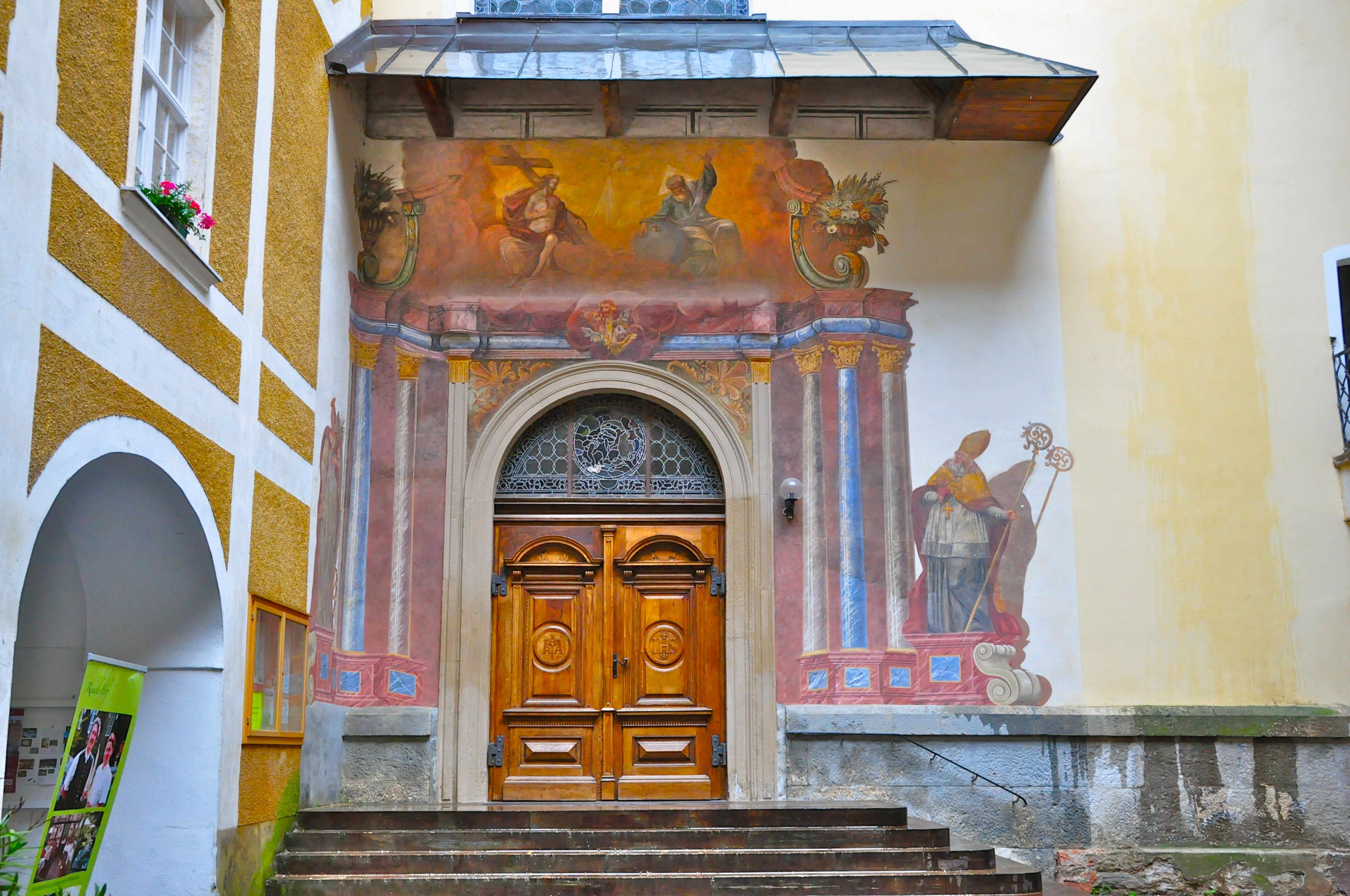 Entrance to the monastery and parish church Holy Catherine in Stainz, municipality Stainz, district Deutschlandsberg, Styria, Austria